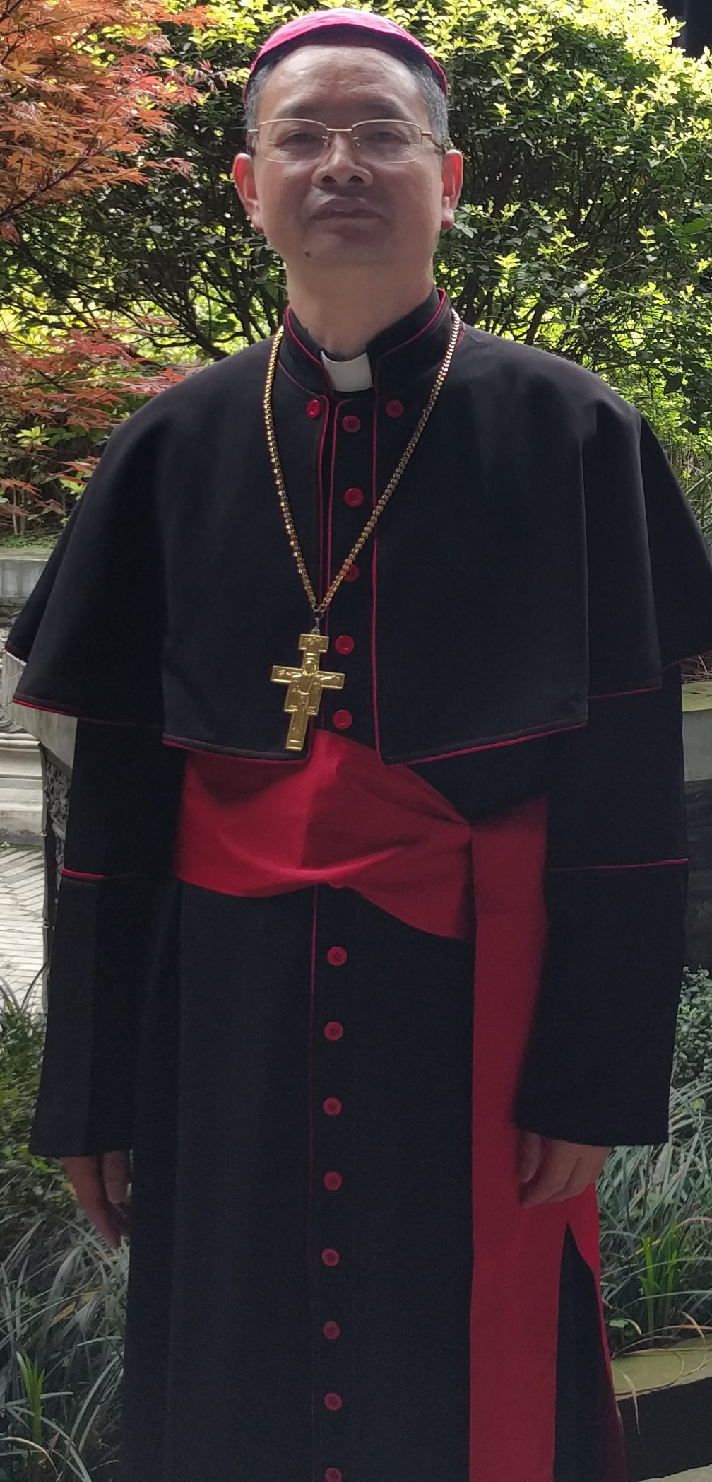 The Most Reverend Joseph Tang Yuange